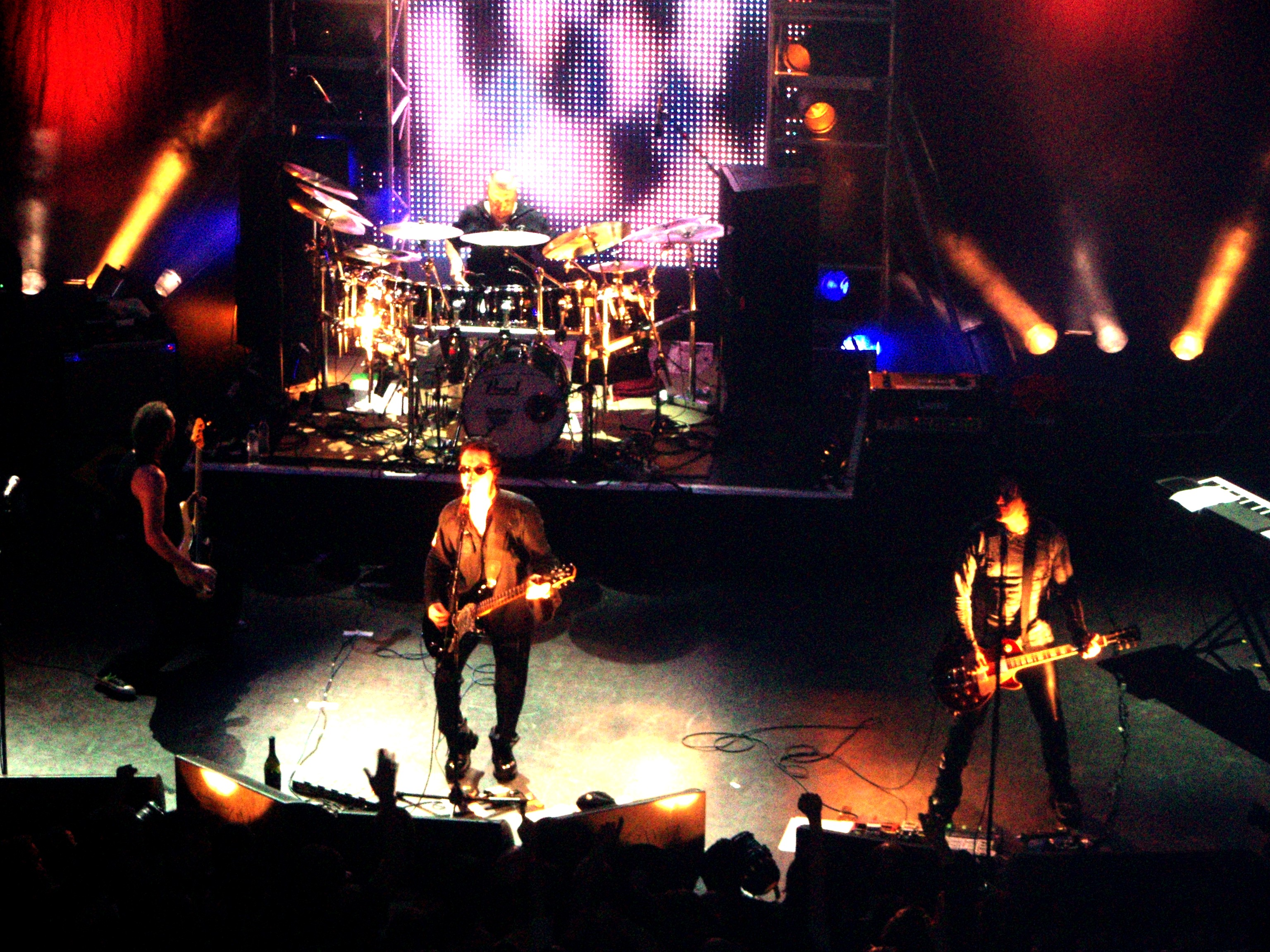 The Mission (known as The Mission UK in the United States. Interesting, as in most bands bass players are the most static of the bunch.